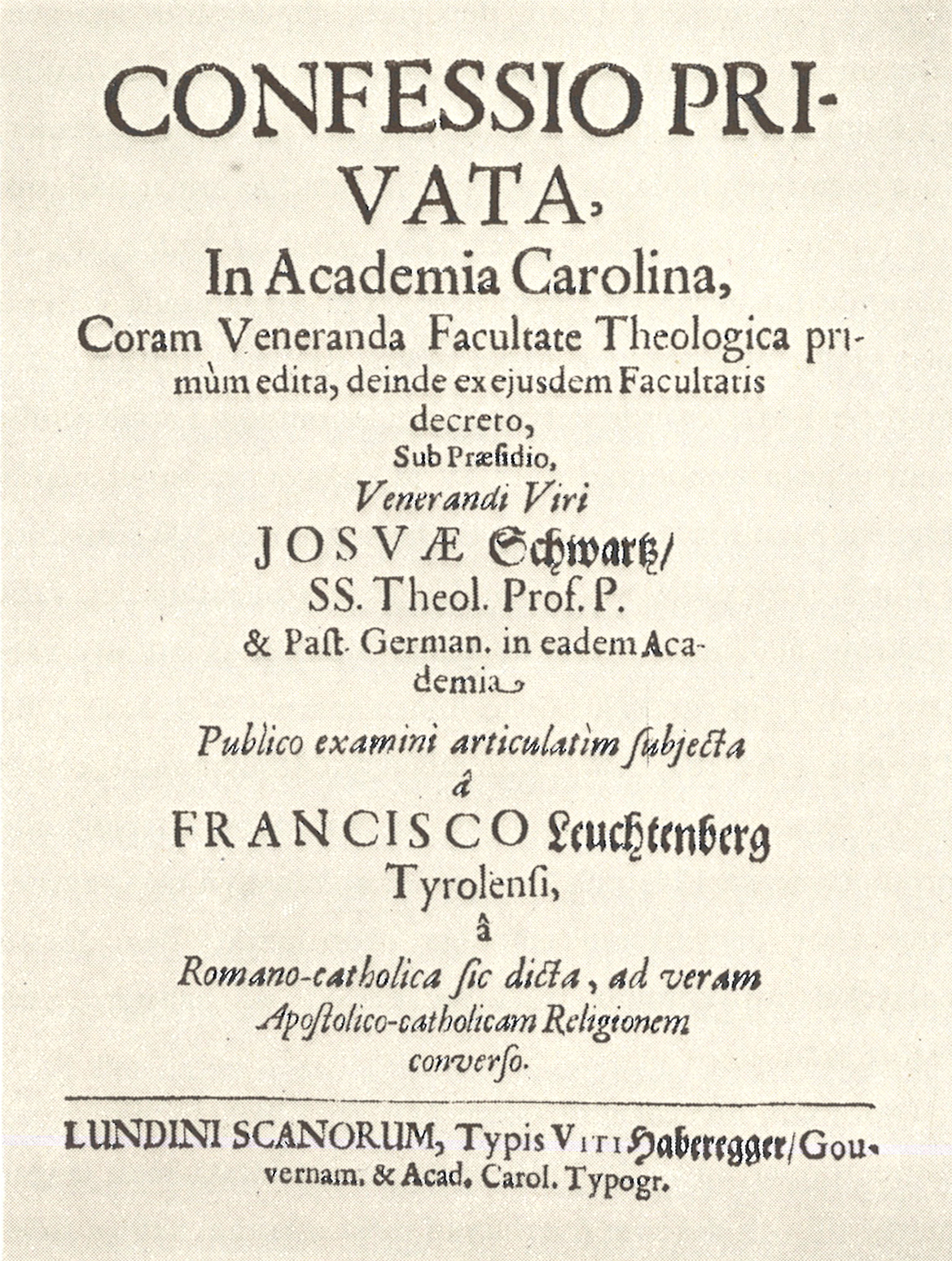 Title page of one of the earliest doctoral dissertions presented at Lund University: Confessio privata (Lund 1668?) by Tyrolian student Franz Leuchtenberg.